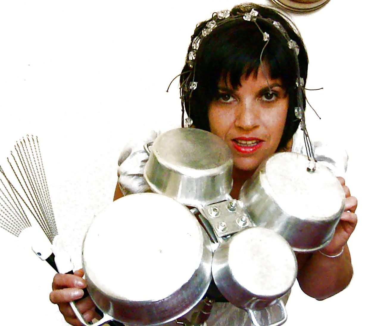 Angela Frontera